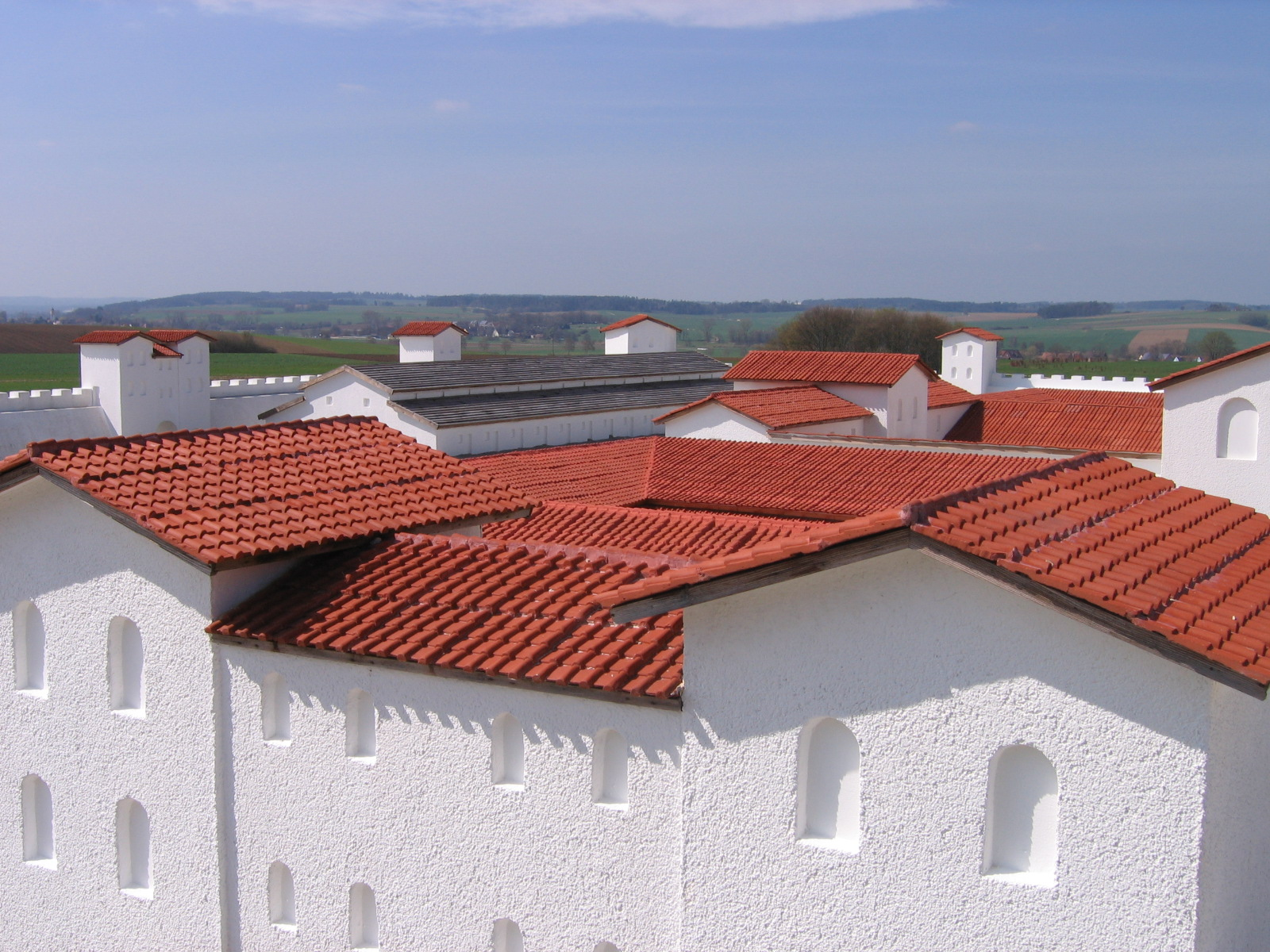 Mini-Kastell im Römerpark Ruffenhofen (wetterfester Kastellnachbau im Maßstab 1:10)